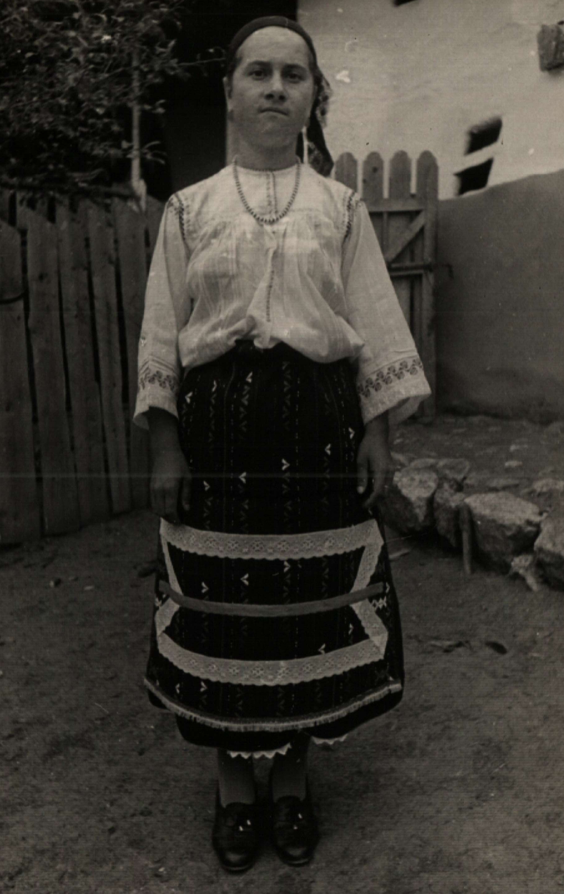 National costume of Bulgaria. Belitsa